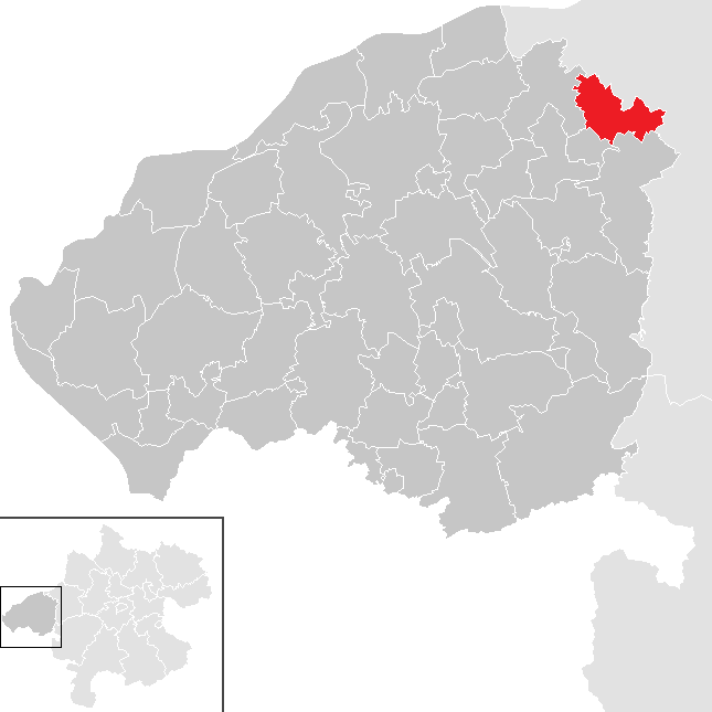 district Braunau am Inn